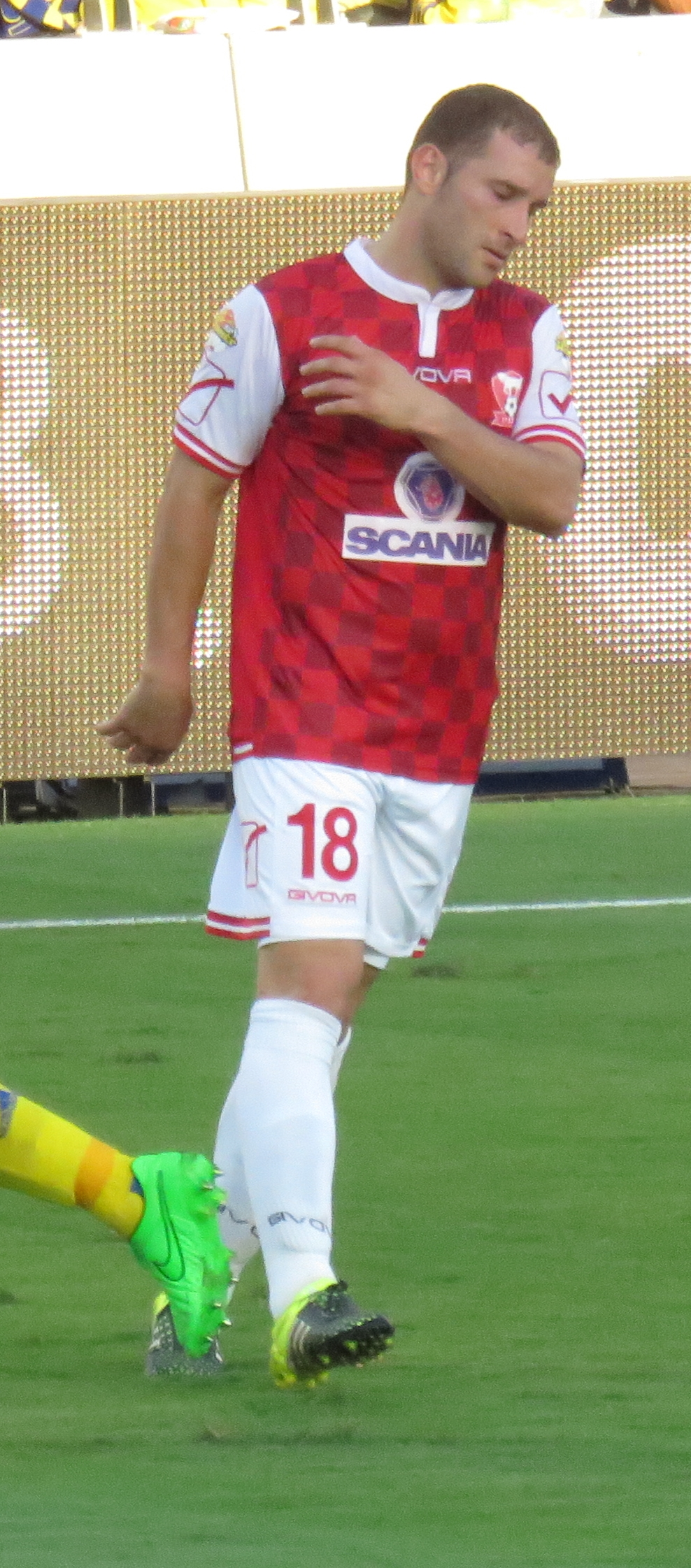 Maccabi Tel Aviv VS. Bnei Sakhnin 22/08/2015